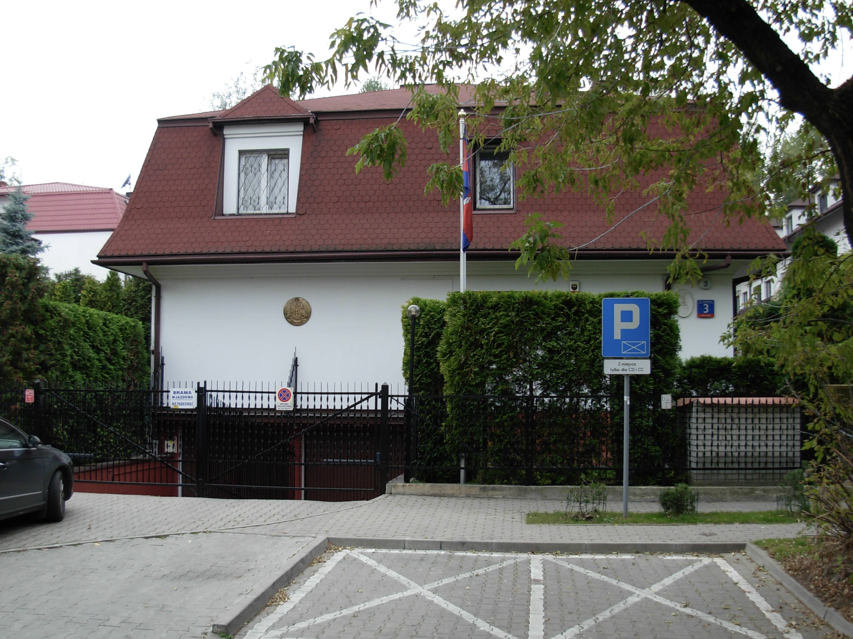 The Royal Embassy of Cambodia in Warsaw